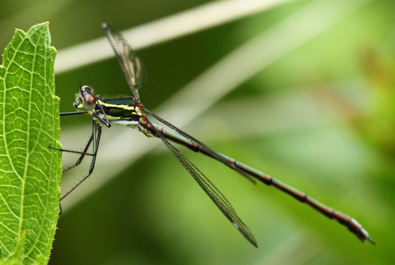 Male Drakensberg Malachite (Chlorolestes draconicus); Kamberg Nature Reserve, KwaZulu-Natal Drakensberg.